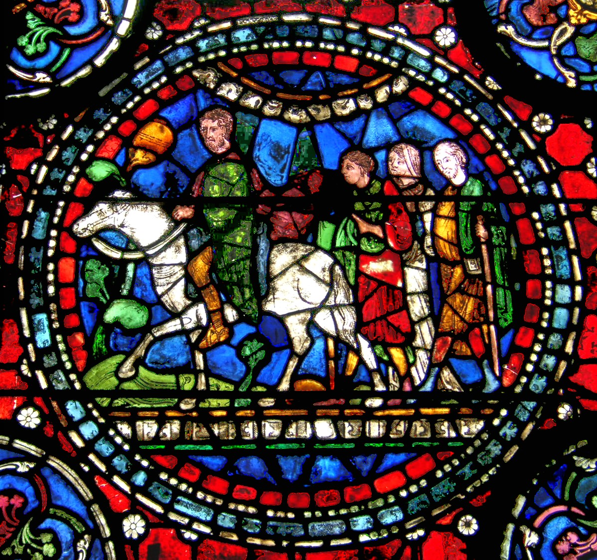 Canterbury Cathedral, Canterbury Pilgrims